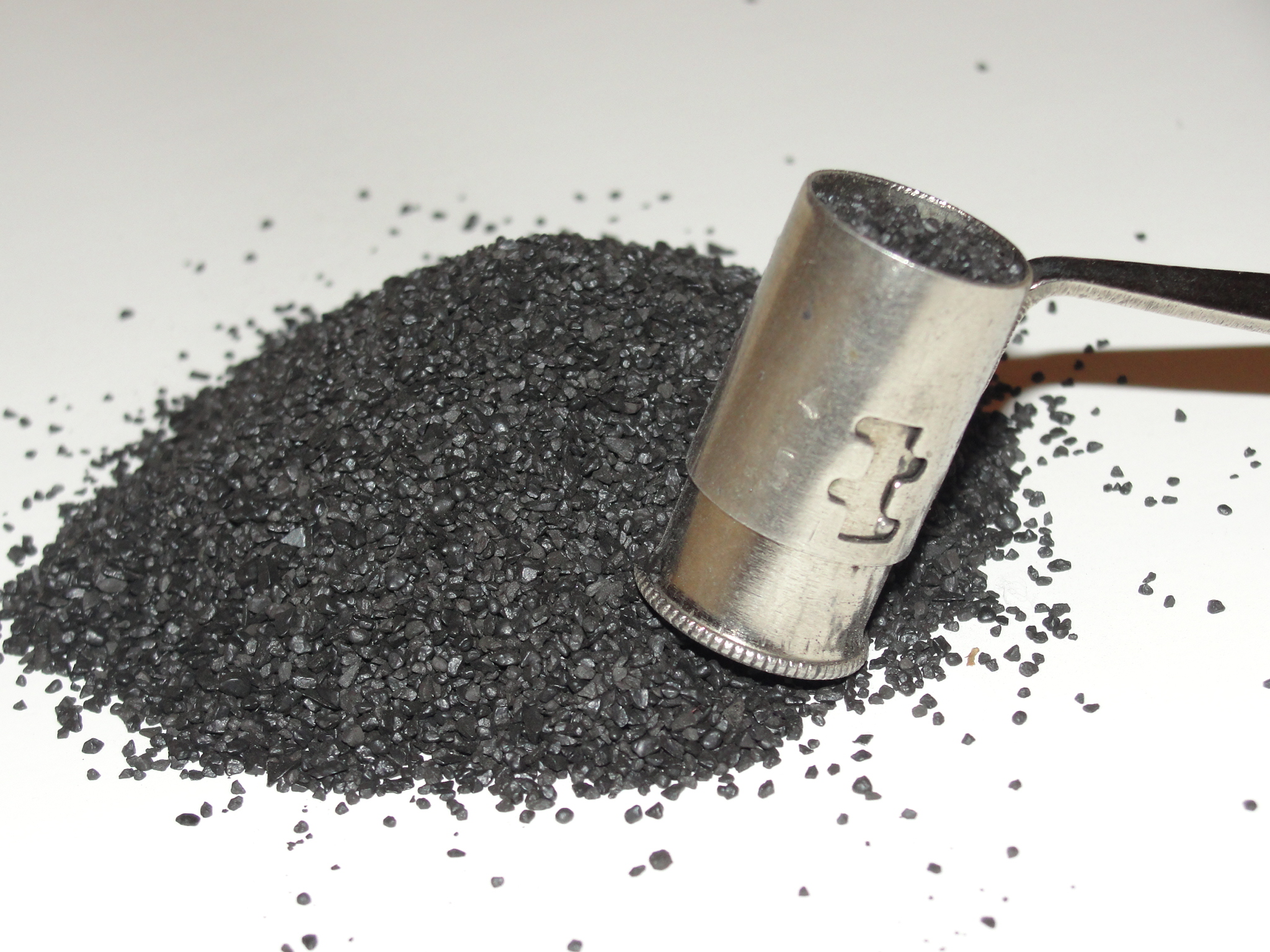 Black Powder and a Measure (Moscow, Russia)